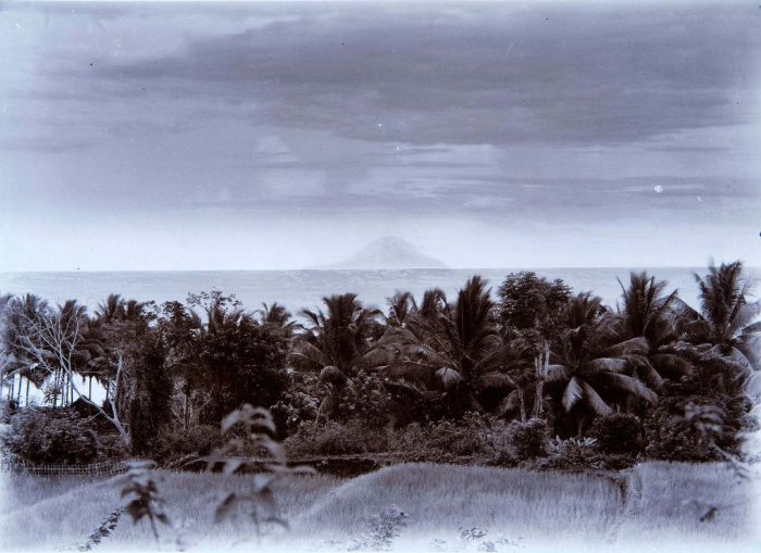 View from Pasauran towards the Krakatau volcano